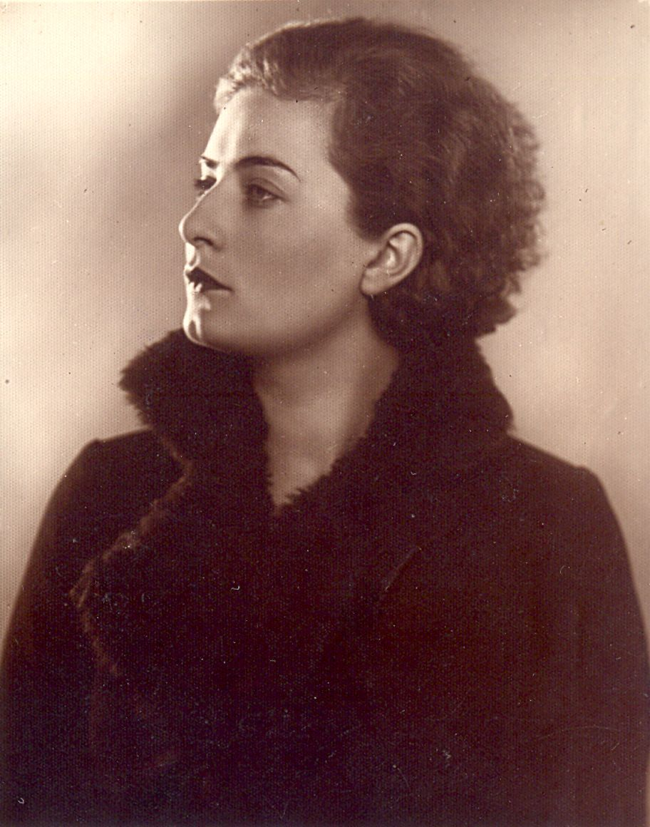 Bulgarian opera singer Ljuba Welitsch